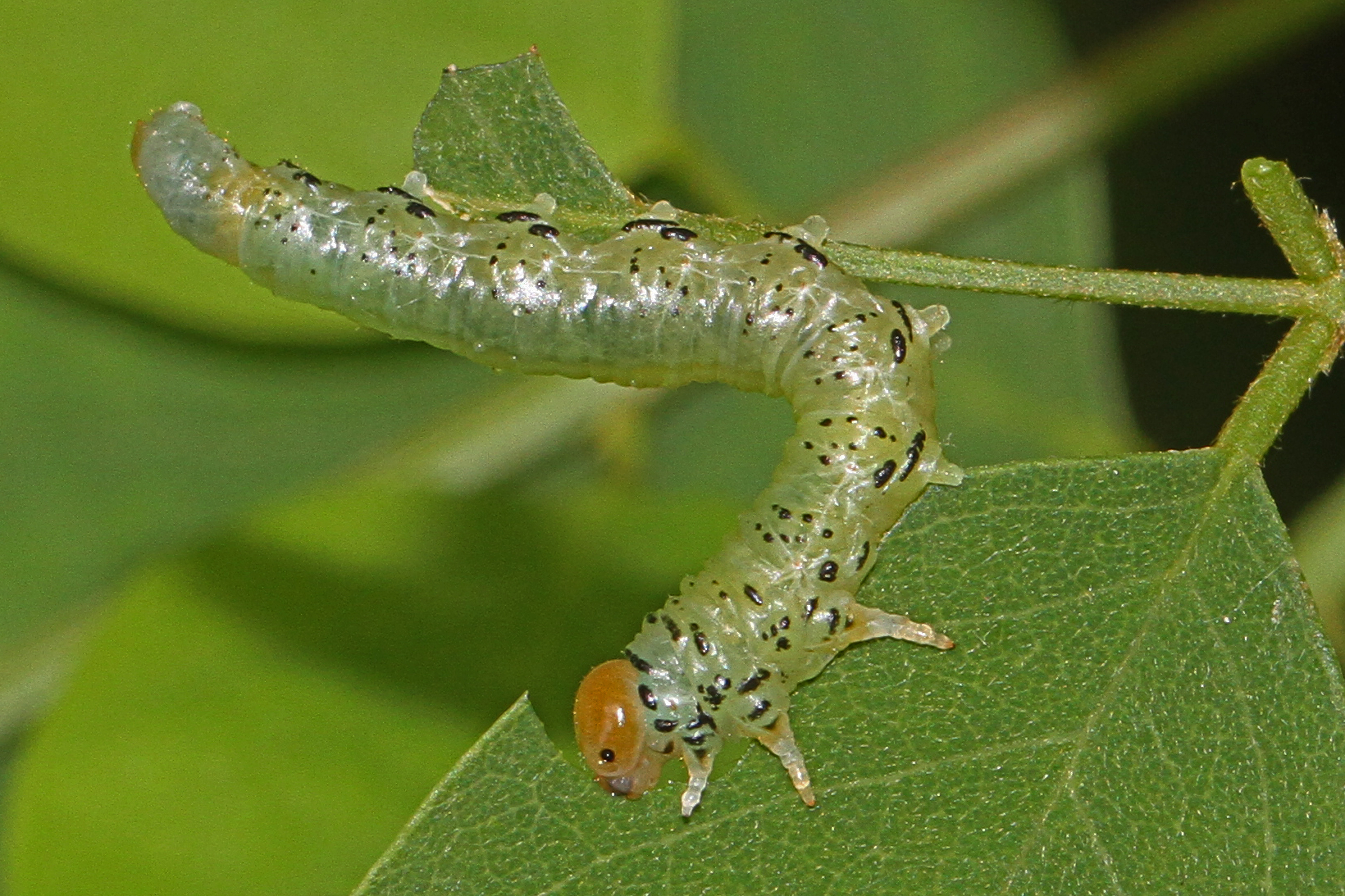 Locust Sawfly - Nematus tibialis larva, Leesylvania State Park, Woodbridge, Virginia